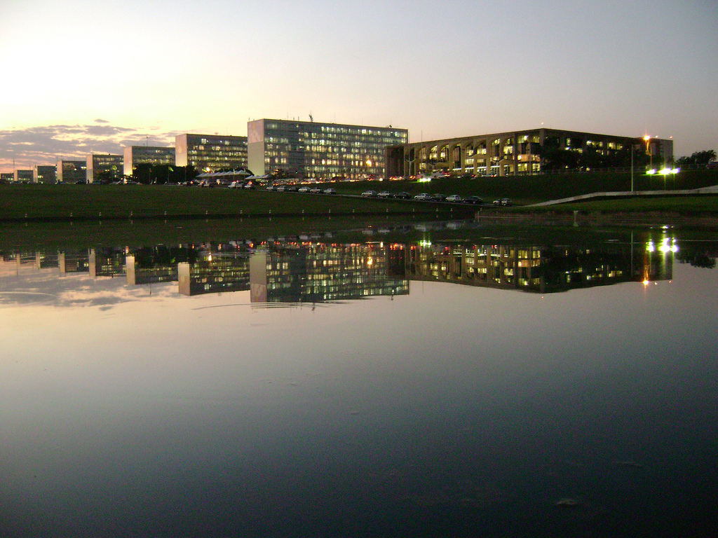 Ministries Esplanade and the National Congress' reflecting pool in Brasília, Brazil.